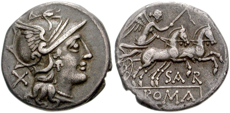 Roman Republic: Atilius Saranus. 155 BC. AR Denarius (18mm, 3.79 g). Helmeted head of Roma right Victory, holding whip, driving biga right. S A R below, ROMA in exergue